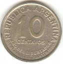 Argentine 10 centavos (1/100 of a peso) in commemoration of José de San Martin.